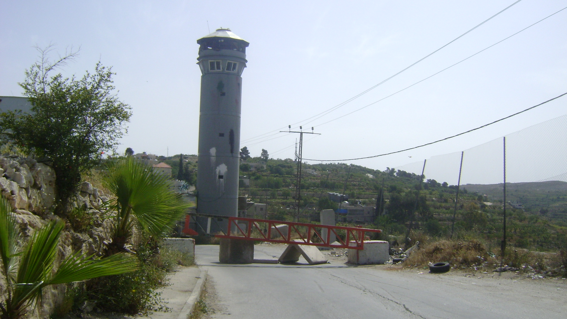 Israeli roadblock at entrance to Beit Ommar, West Bank.